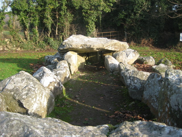 Wedge Tomb Wedge tomb on the walk to Proleek Dolmen. The gallery is 6 metres in length and 1.5 metres wide at the west end, narrowing to just over a metre wide at the east end, which is covered by two remaining roof stones. At the west or nearest end in the image below, is a large septal slab closing the gallery. You can also see how the construction of the gallery tomb has been very precise.